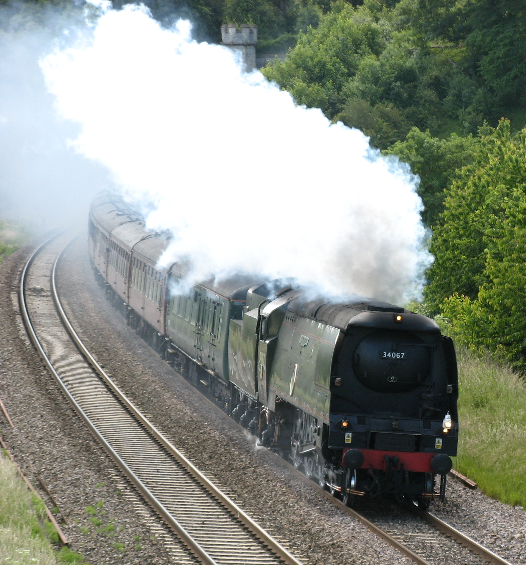 34067 Tangmere, west of Twerton Tunnel, Bath, on the former-GWR line to Bristol. The train was the Poole to Cardiff (via Eastleigh) tour called 'The Welshman', run by the Railway Touring Company.[1] This train was notable for being unable to restart on Horfield bank, Bristol, requiring diesel assistance (from 47500) to proceed.[2][3]